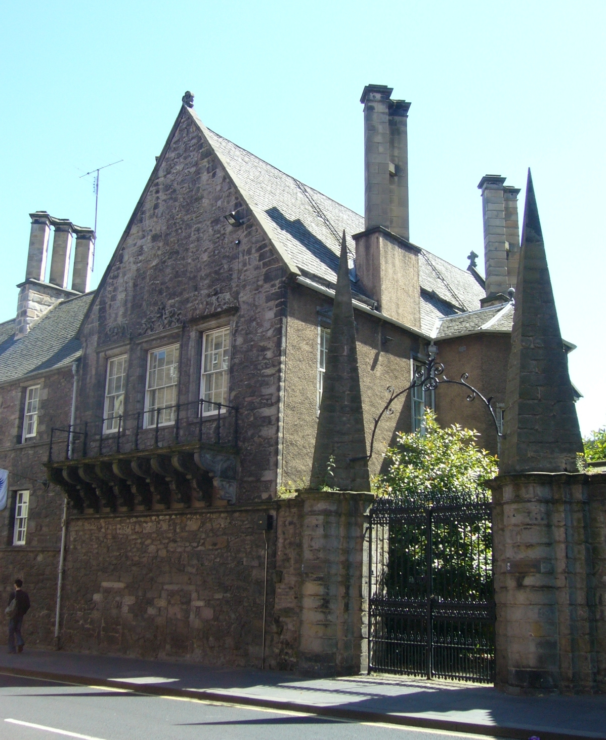 Moray House in the Canongate